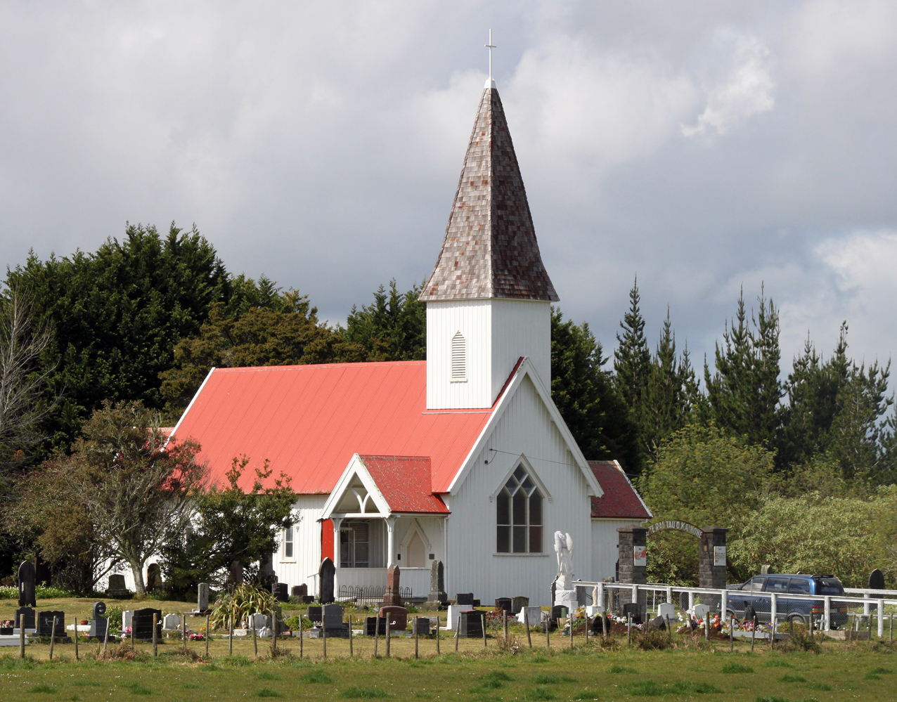 The Aperahama Church near Kaikohe in New Zealand, named after Aperahama Te Awa, a prominent Maori churchman who died the year before this building was constructed in 1885, and lies buried in the churchyard.